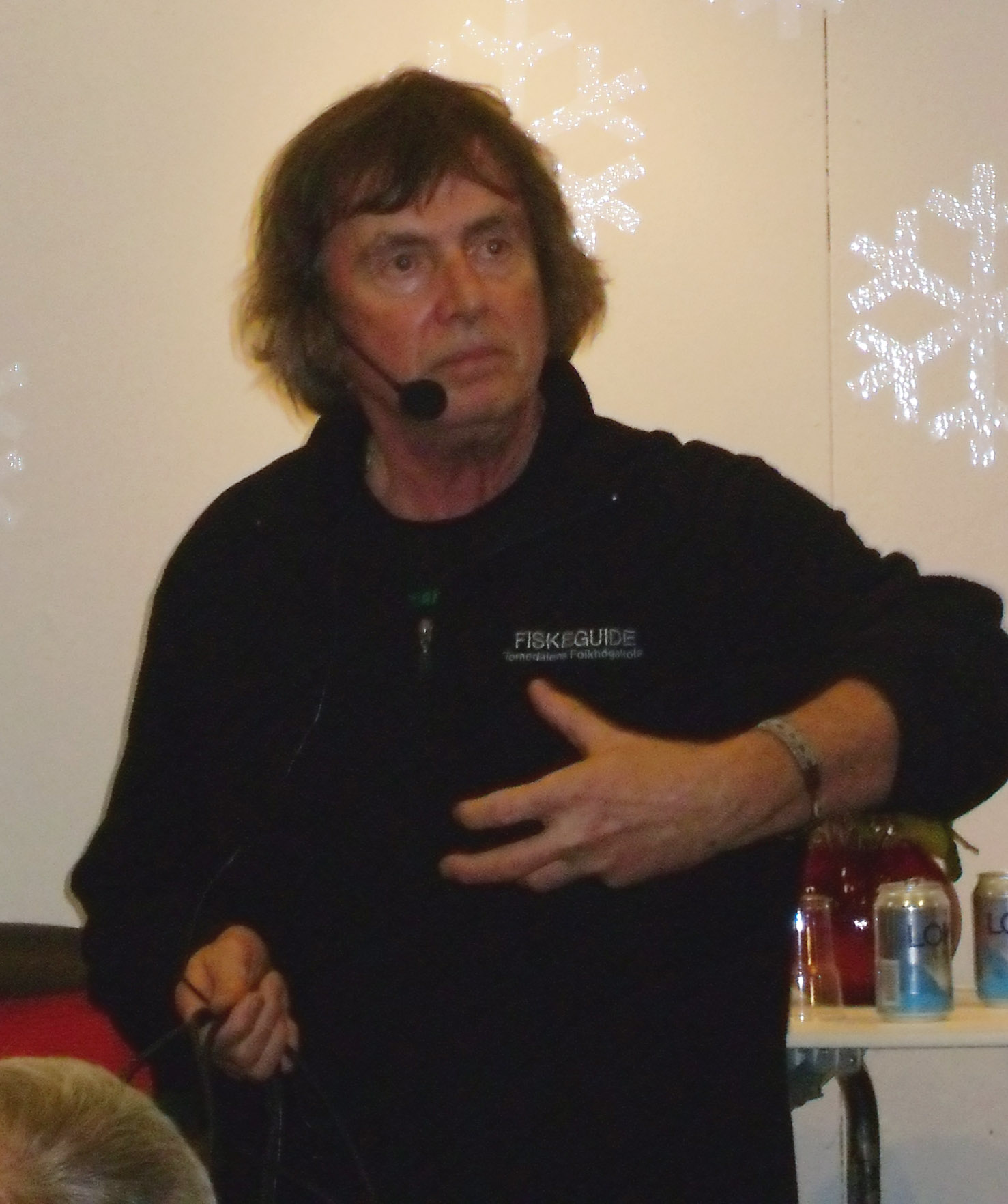 Swedish author and photographer Gunnar Westrin at gothenburg book fair 2008